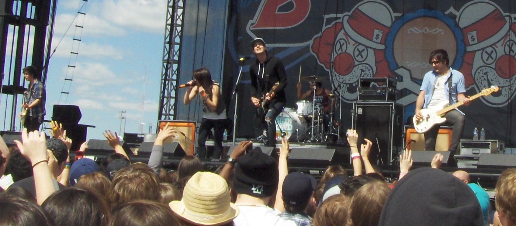 Took this picture of We Are The In Crowd performing at Bamboozle 2011.